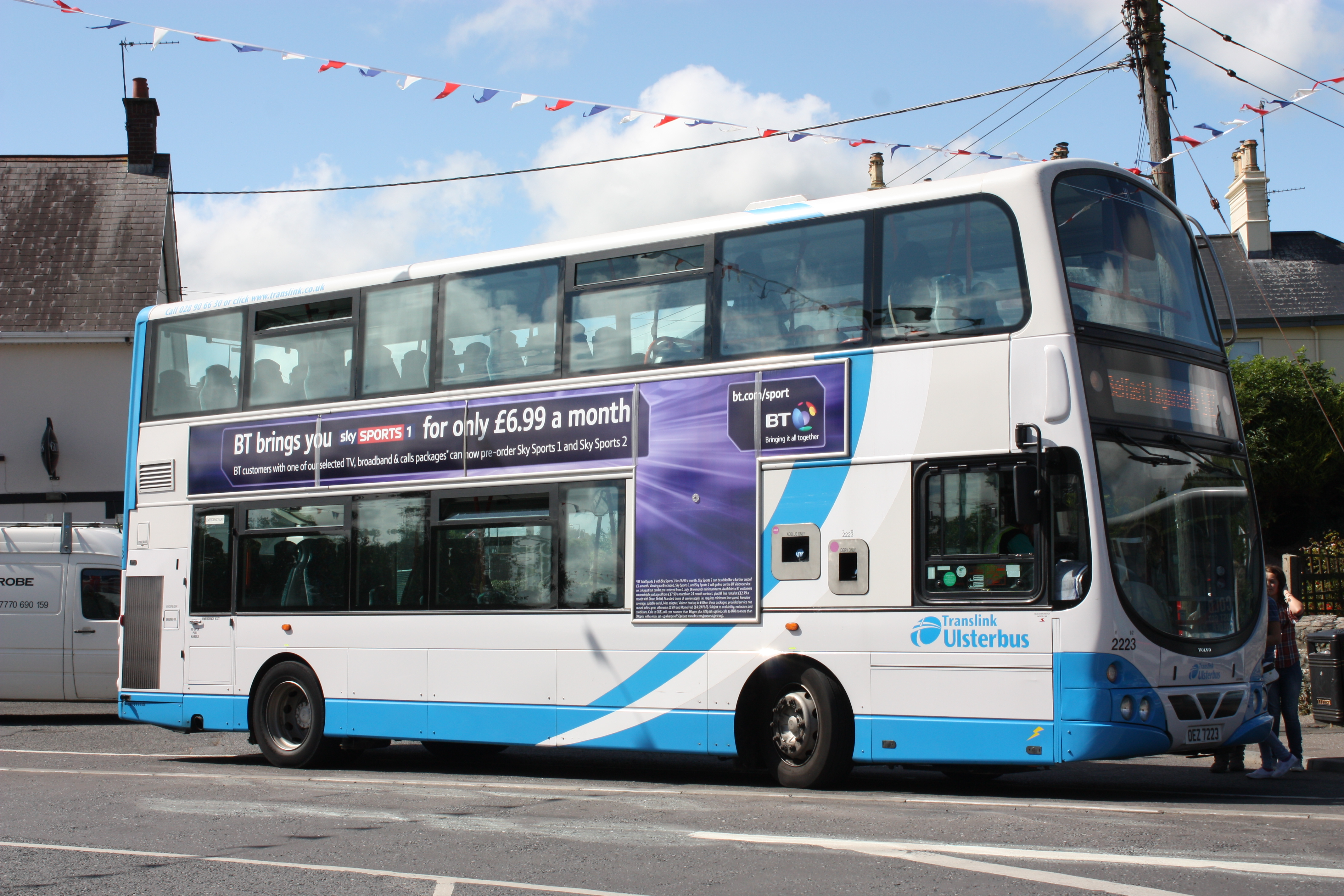 Ulsterbus bus 2223 (reg. OEZ 7223), a 2007 Volvo B9TL double-decker with Wrightbus Eclipse Gemini bodywork, at The Square, Ballygowan, County Down.